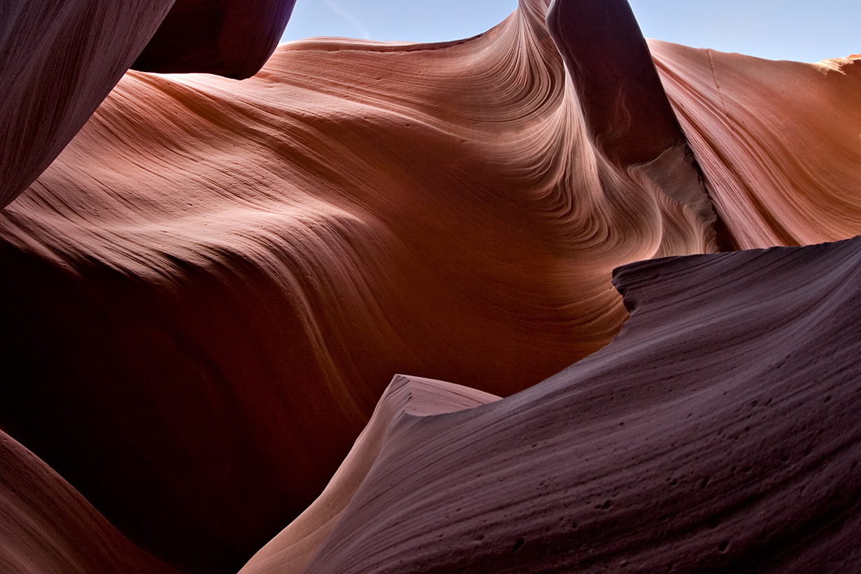 Inside Lower Antelope Canyon, looking out with the sky near the top of the frame. Characteristic layering in the sandstone is visible.